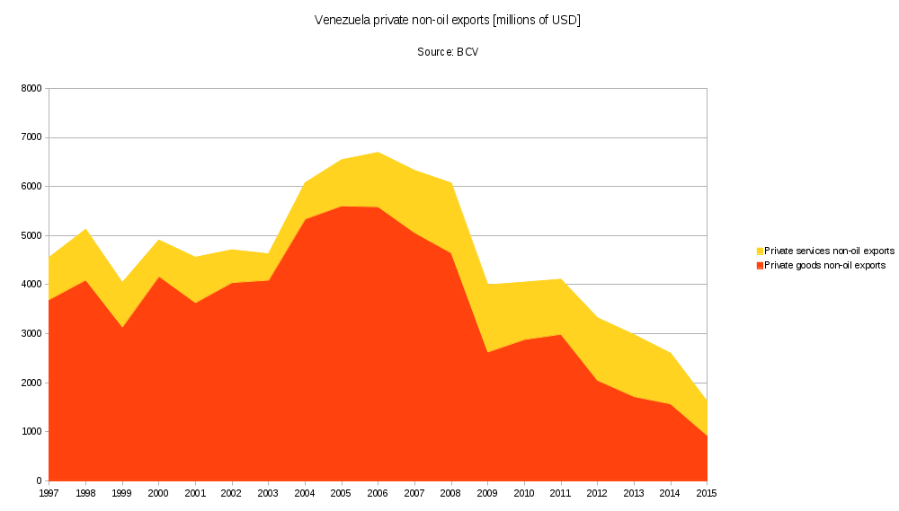 Venezuela private sector good and services exports. (excluding oil business)